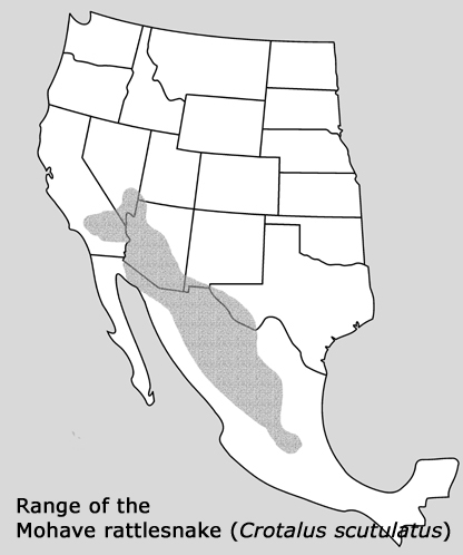 Range map of Crotalus scutulatus — Mohave rattlesnake, Mojave green rattlesnake.